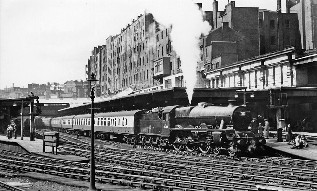 Express to Euston at Birmingham New Street. View northward from the east end of the ex-Midland part of the station, showing the ex-London & North Western part and the Hotel above, exposed after the removal of the overall roof soon after the War. Well-cleaned LMS 'Jubilee' 6P 4-6-0 No. 45709 'Implacable' heads a smart set of carmine-and-cream coaches forming the 13.55 Wolverhampton to Euston at Platform 3. See File:Birmingham New Street LMS Patriot 2094586 b38c2b7e.jpg for further details.